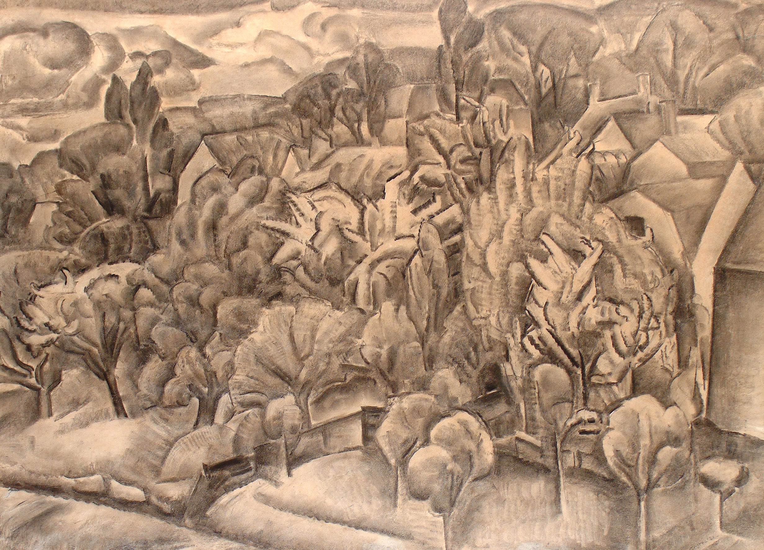 Houses in a landscape. Signed and dated '21, charcoal, 69 x 95cm